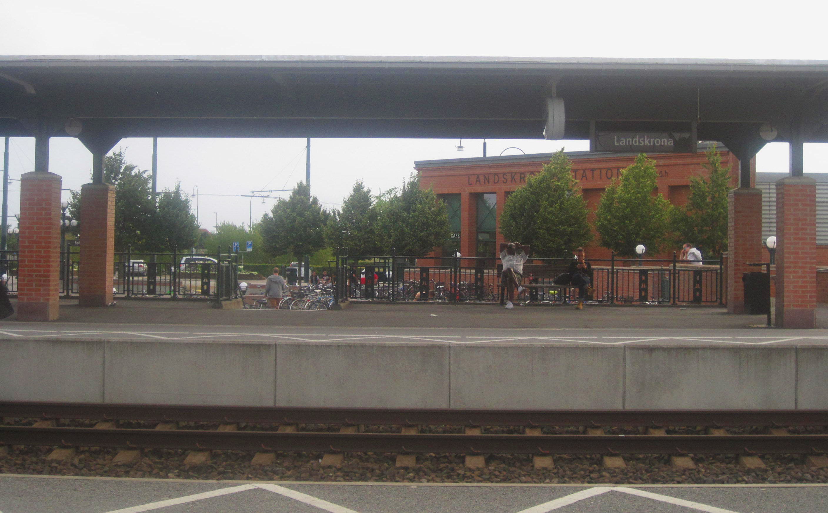 View of the railway station in Landskrona, Sweden as seen from the tracks.